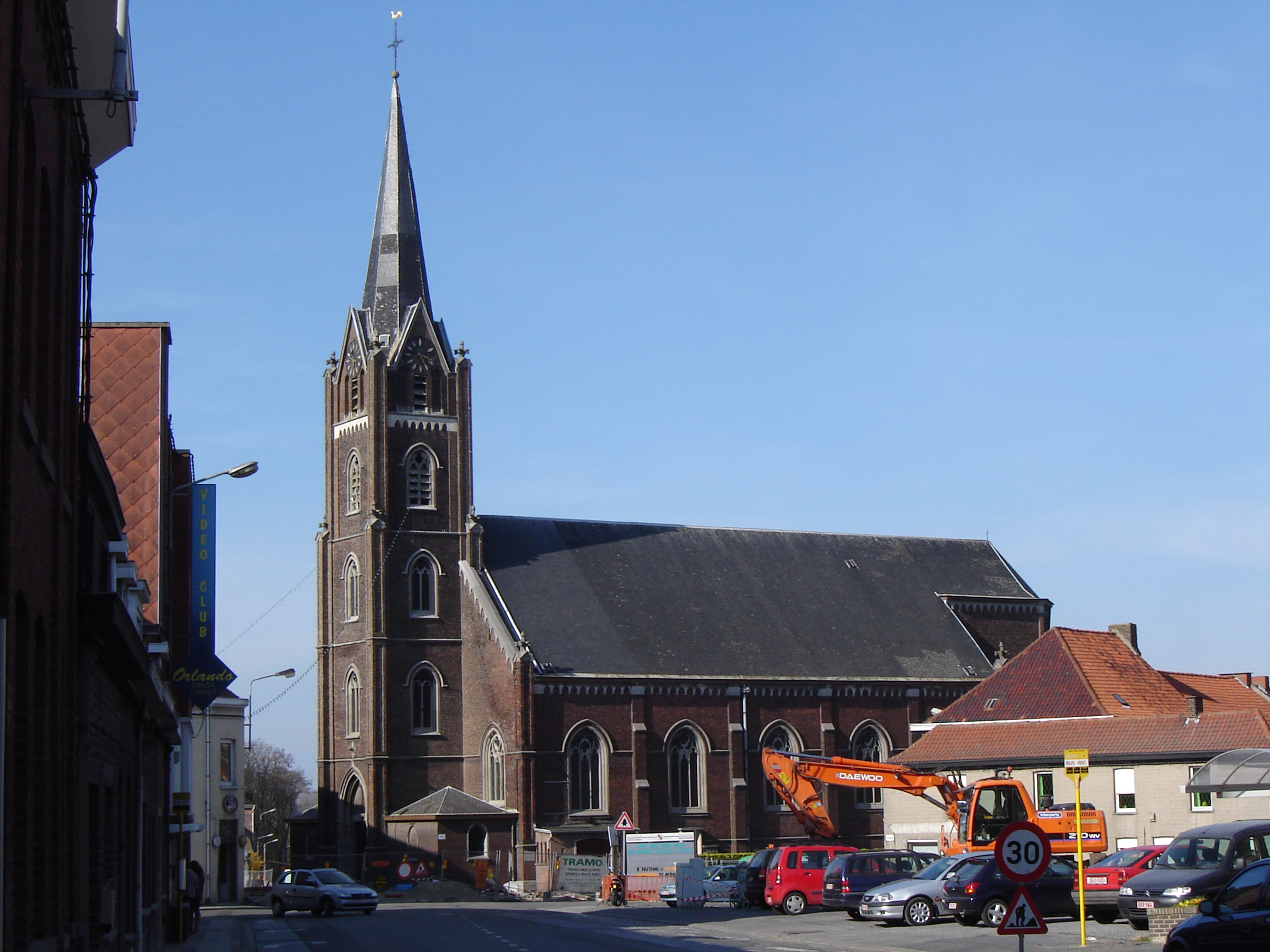 Church of Saint Amand in Luingne, Mouscron, Hainaut, Belgium